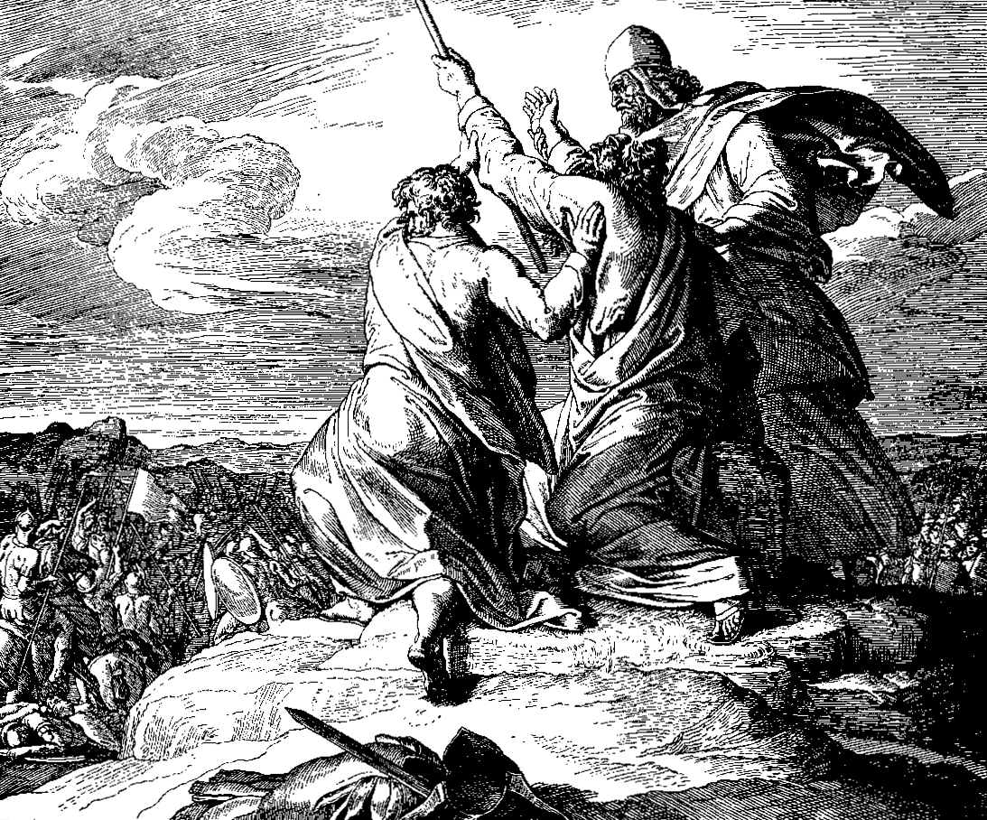 Woodcut for "Die Bibel in Bildern", 1860.